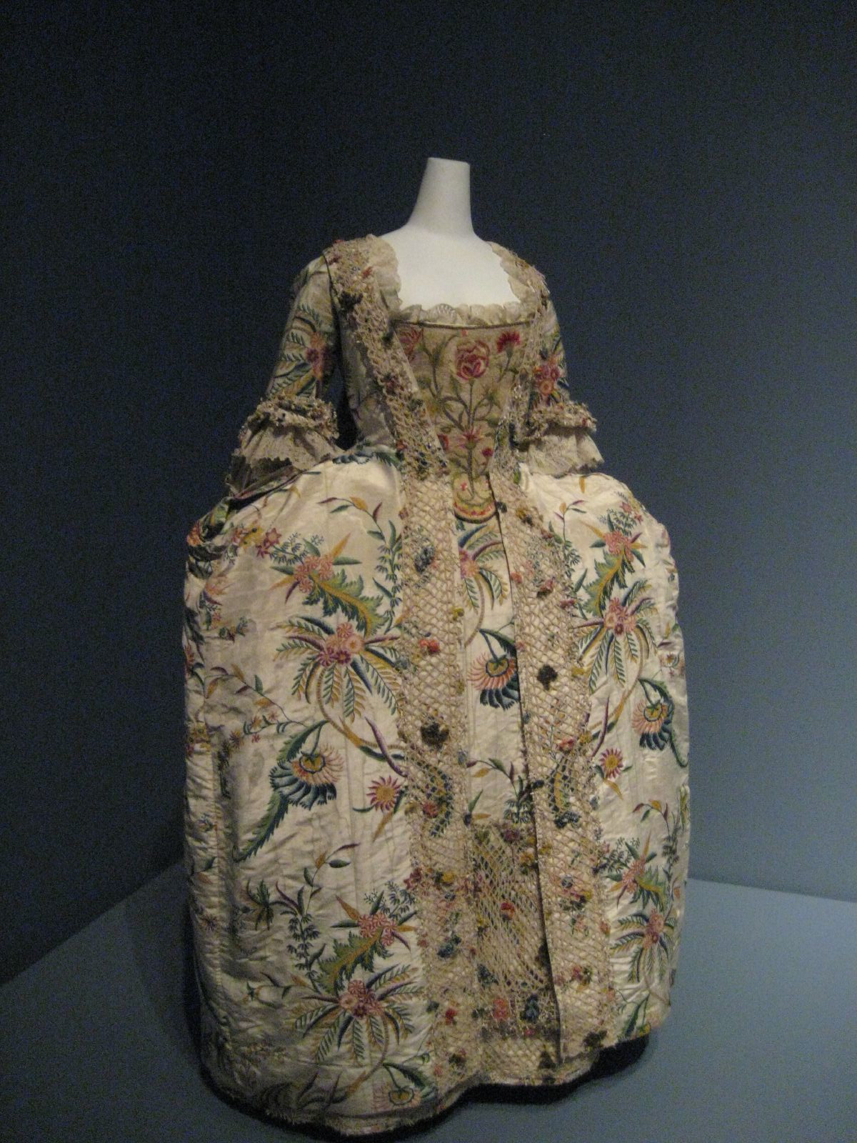 Robe à la française or open gown with stomacher, 1740s, England (textiles produced in Holland or Germany), Silk, linen, pigment.